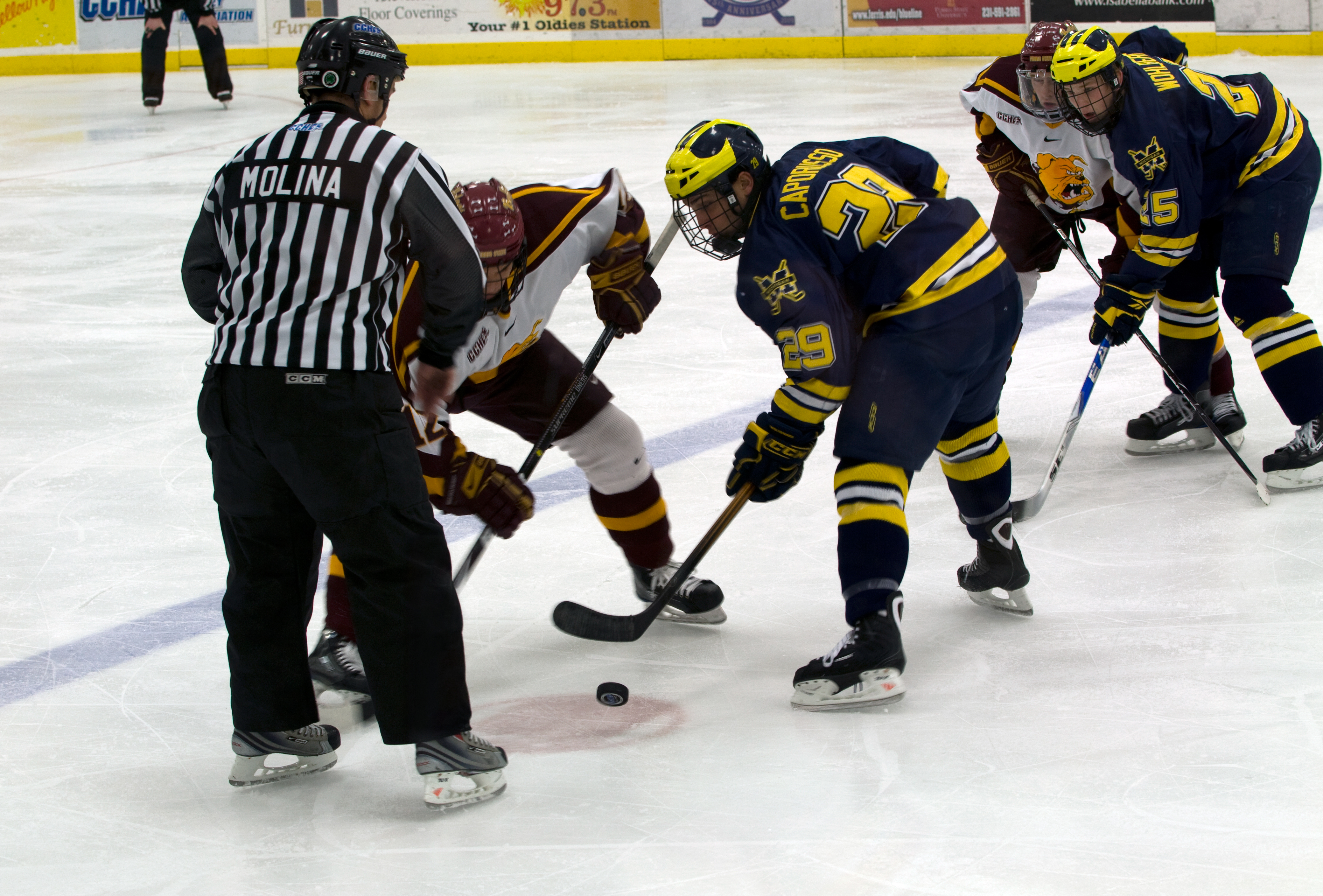 Louie Caporusso during faceoff against Ferris state